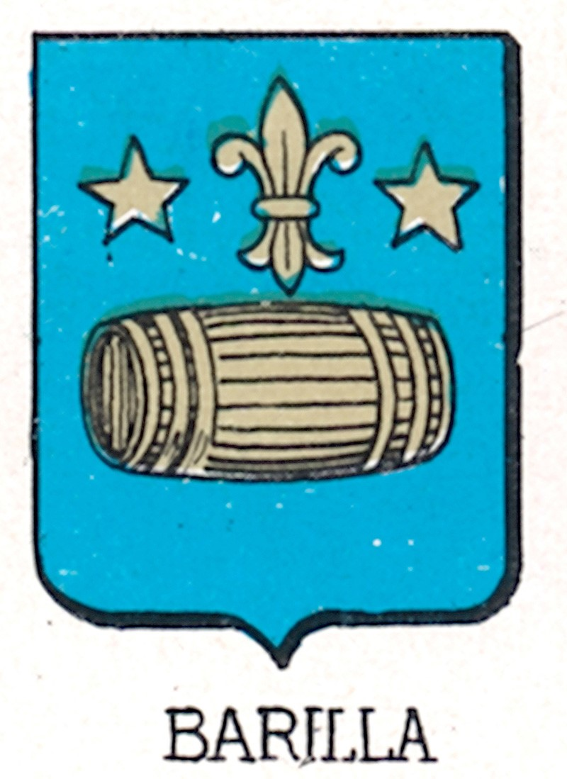 stamma araldico